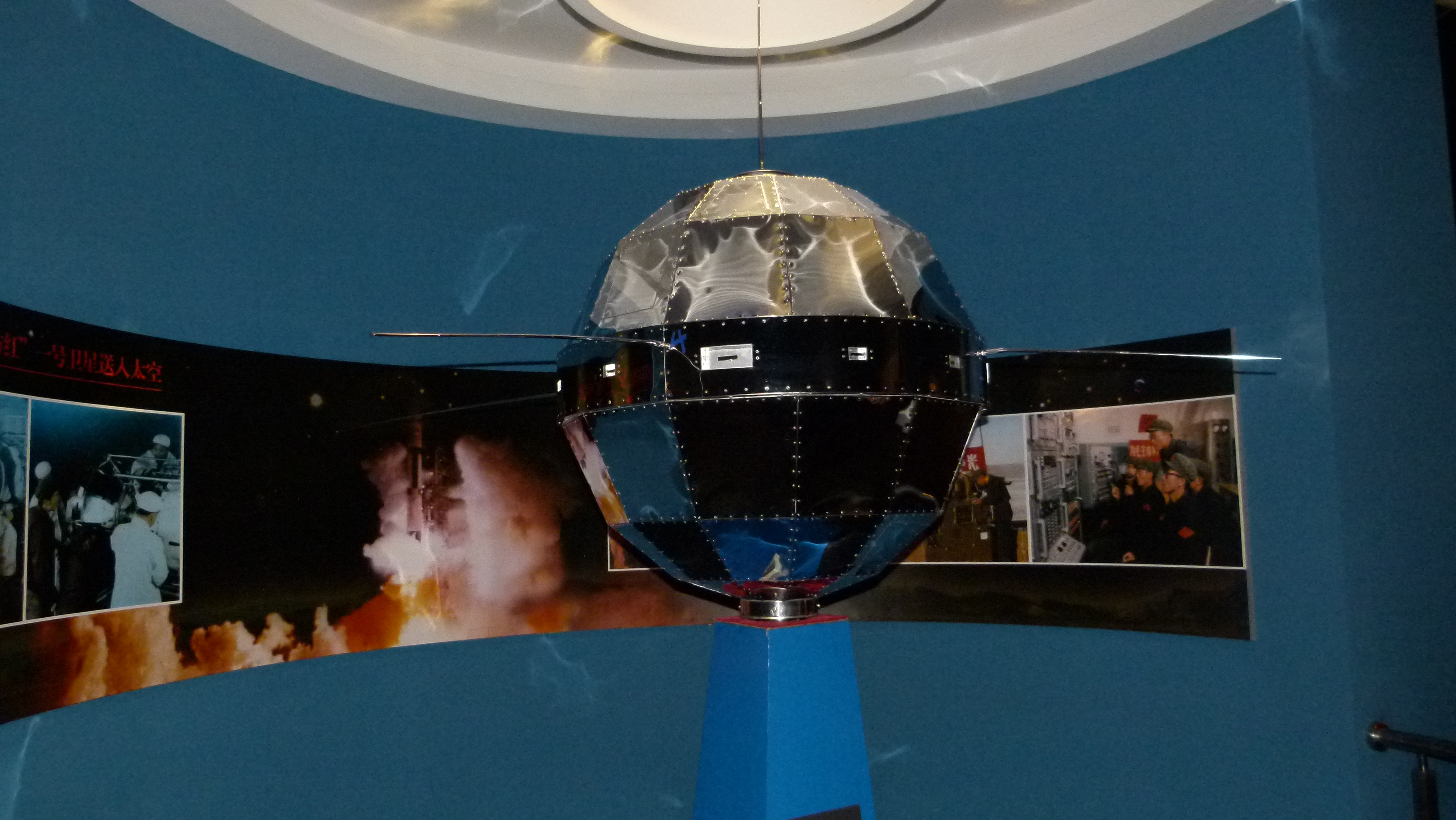 Dong Fang Hong I - Chinese first satellite (1970), Space technology exhibition in Hohhot, Inner Mongolia, China